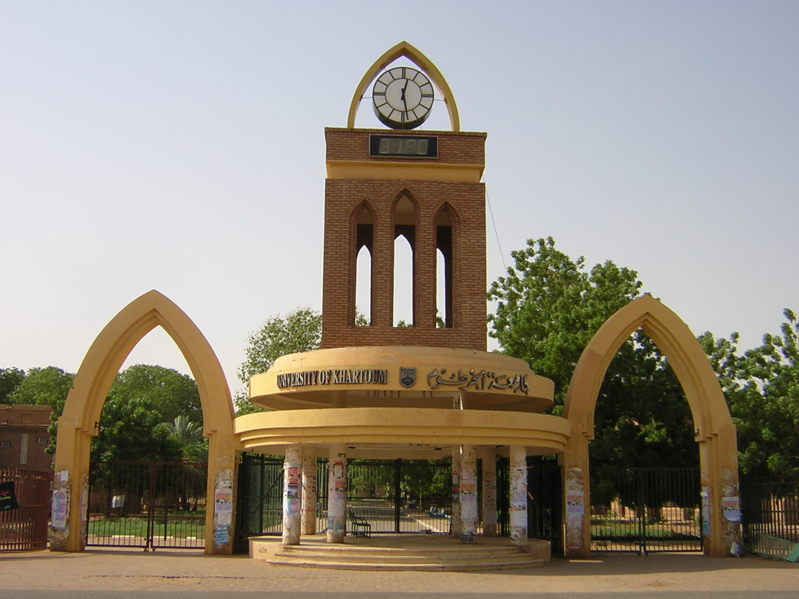 The main gate of the University of Khartoum, Khartoum, Sudan.